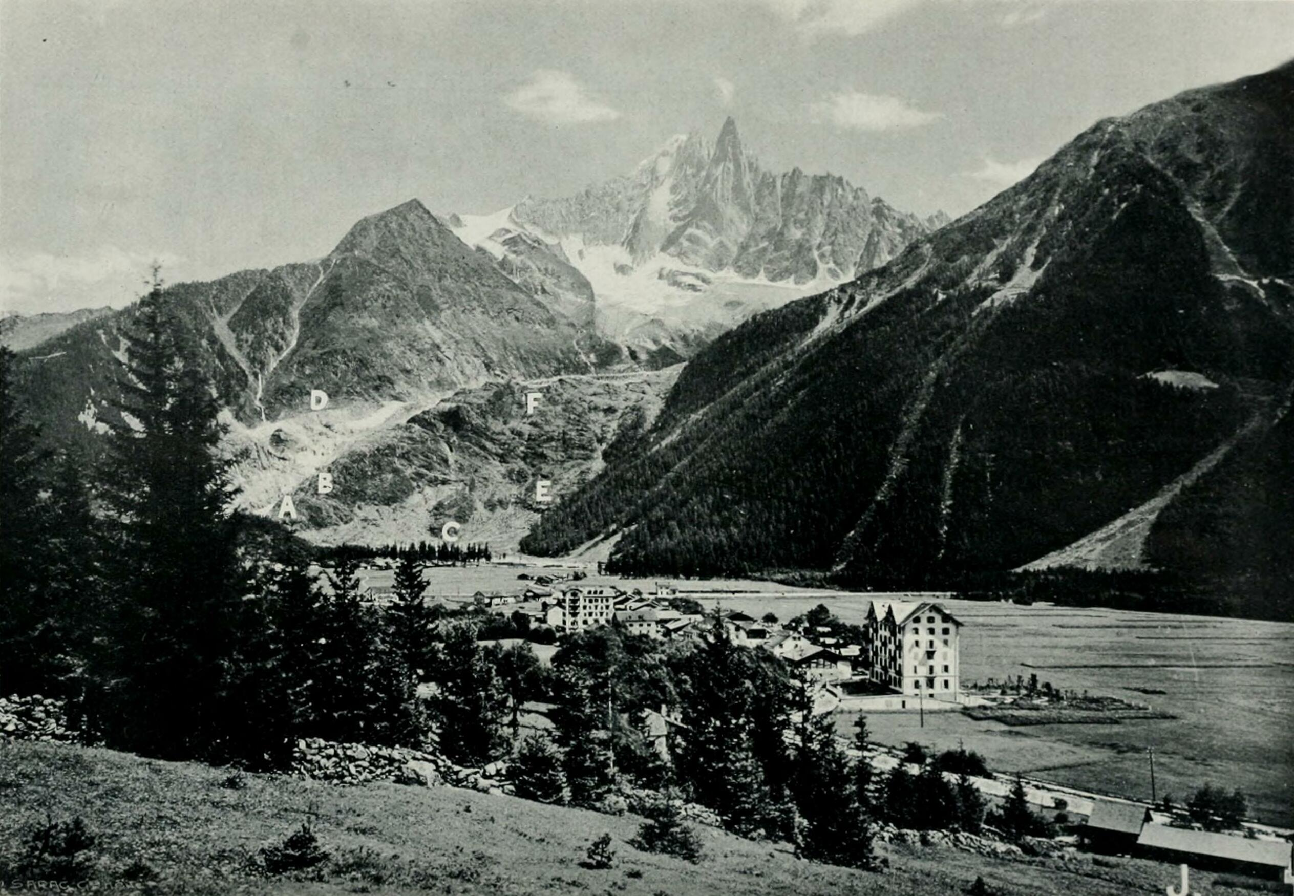 Title: Le Globe Year: 1860 (1860s) Authors: Société de géographie de Genève Subjects: Geography Publisher: Genève Text Appearing Before Image: PI. II. — Kpaisseur du (ilacier des Bois lE. et A. Chaix, 11)07 , Text Appearing After Image: '